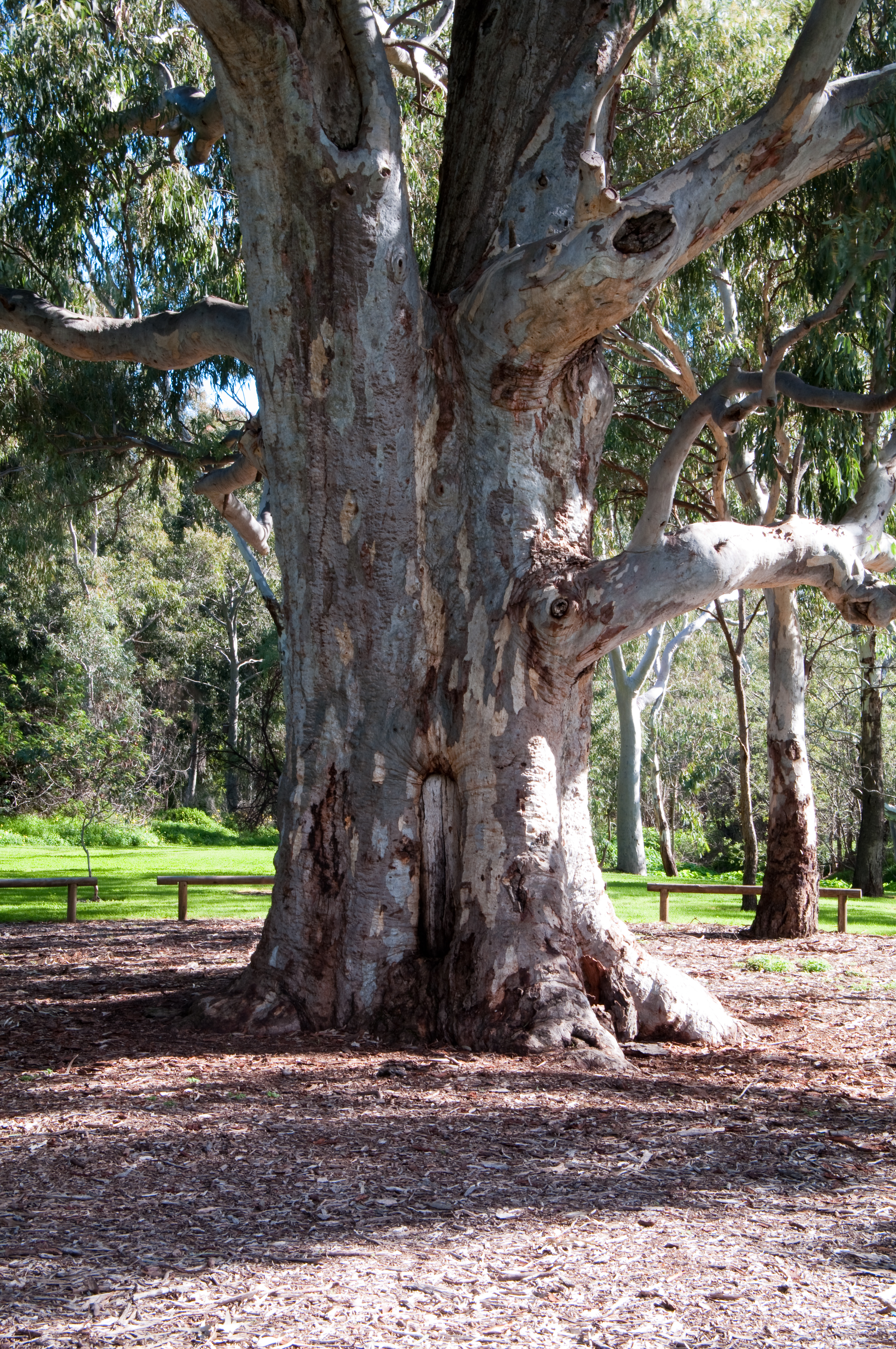 An indigenous shield tree at Warriparinga in South Australia. A shield was carved out of the bark of the tree, which has since continued to grow.